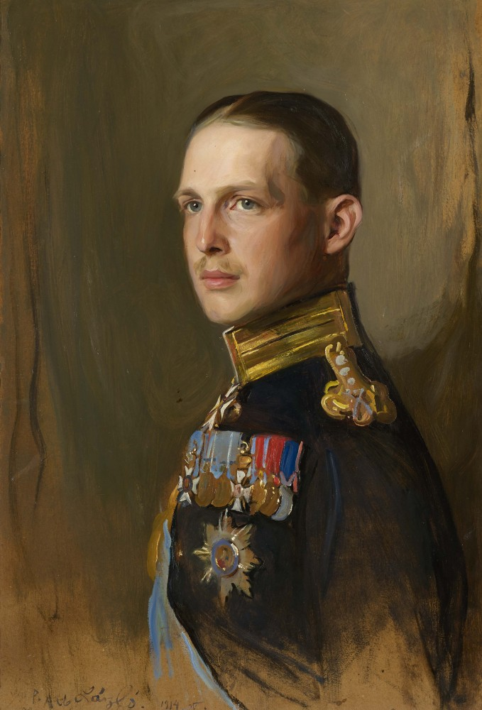 Portrait George II of Greece, King of the Hellenes